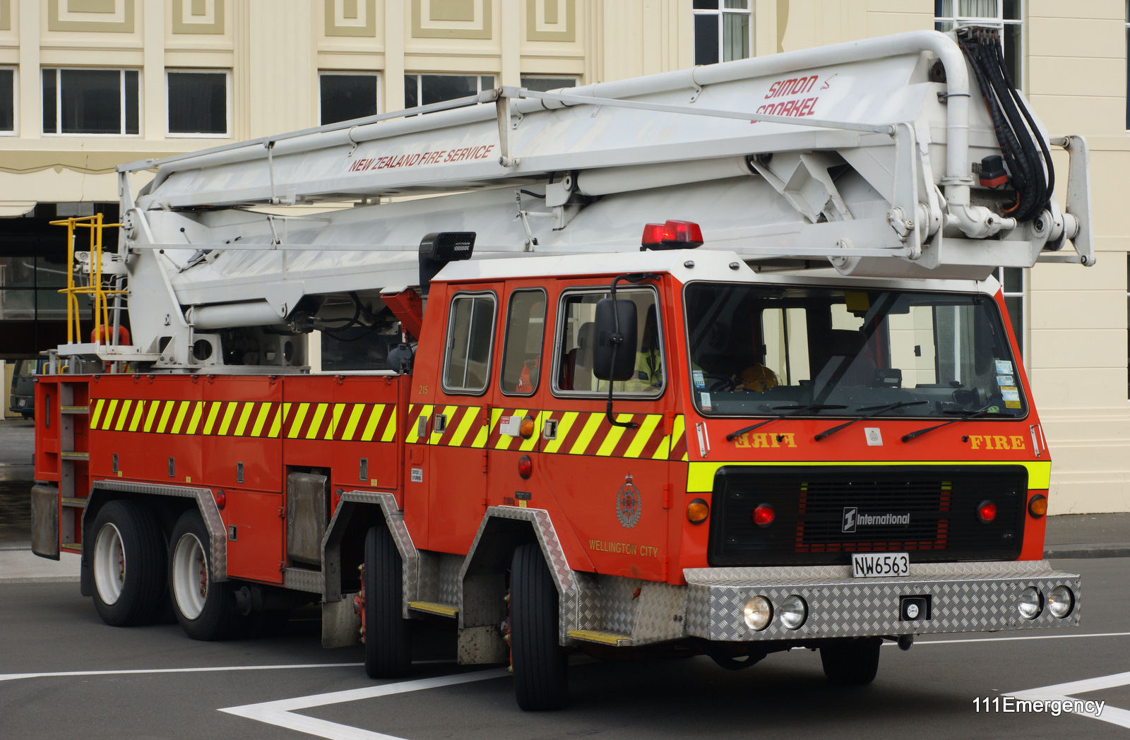 Former Wellington 215 - 1988 International T2670 Snorkel Appliance